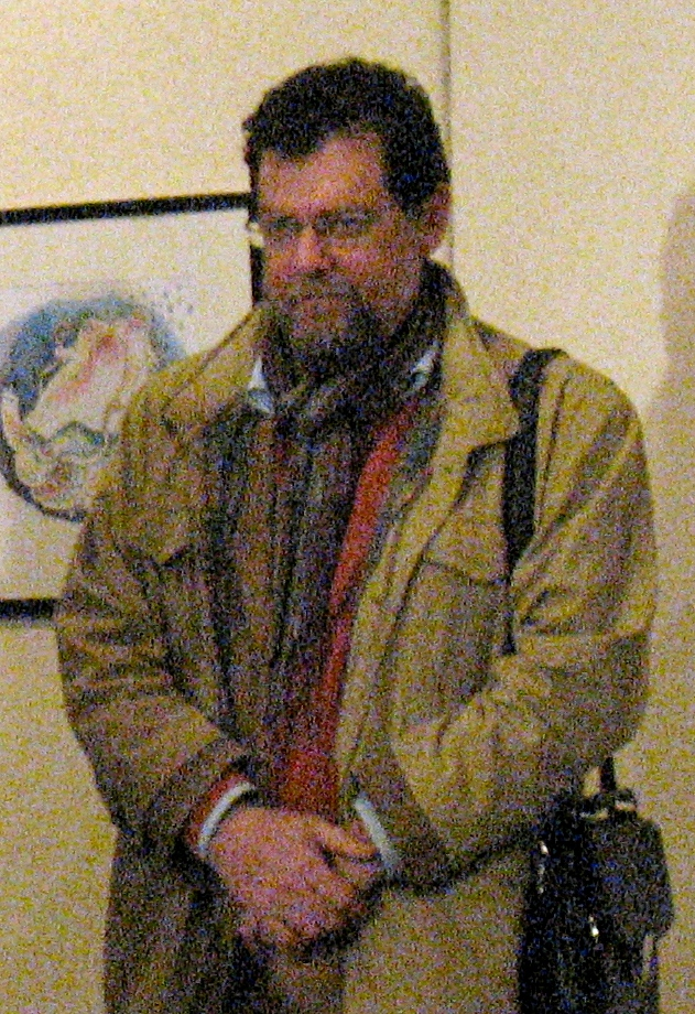 Ivaylo Mirchev, Bulgarian painter, on a caricatures exhibition on 13 December 2007, Sofia, Bulgaria